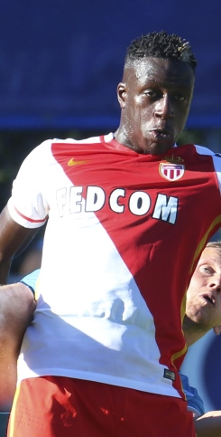 Benjamin Mendy